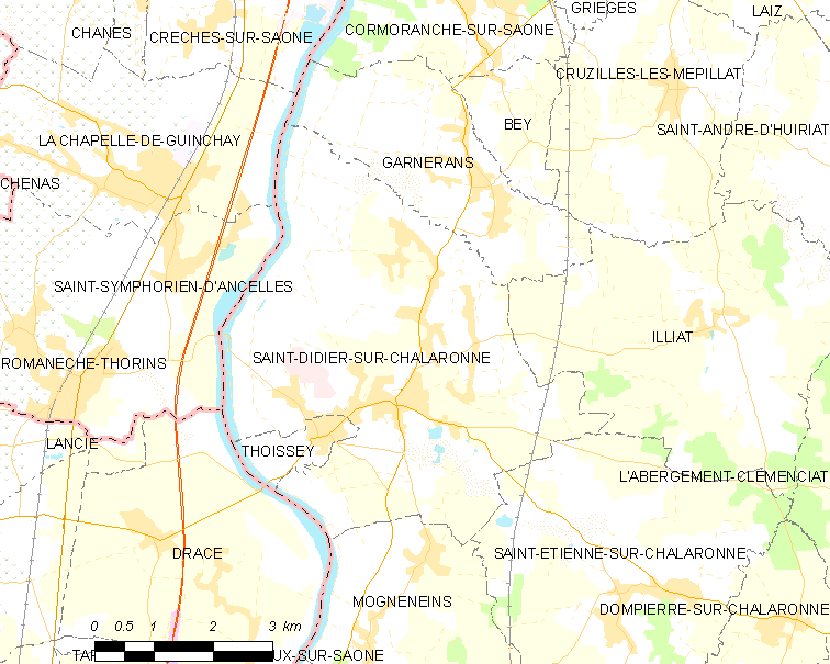 Map of French commune: Saint-Didier-sur-Chalaronne Map commune FR insee code 01348.png